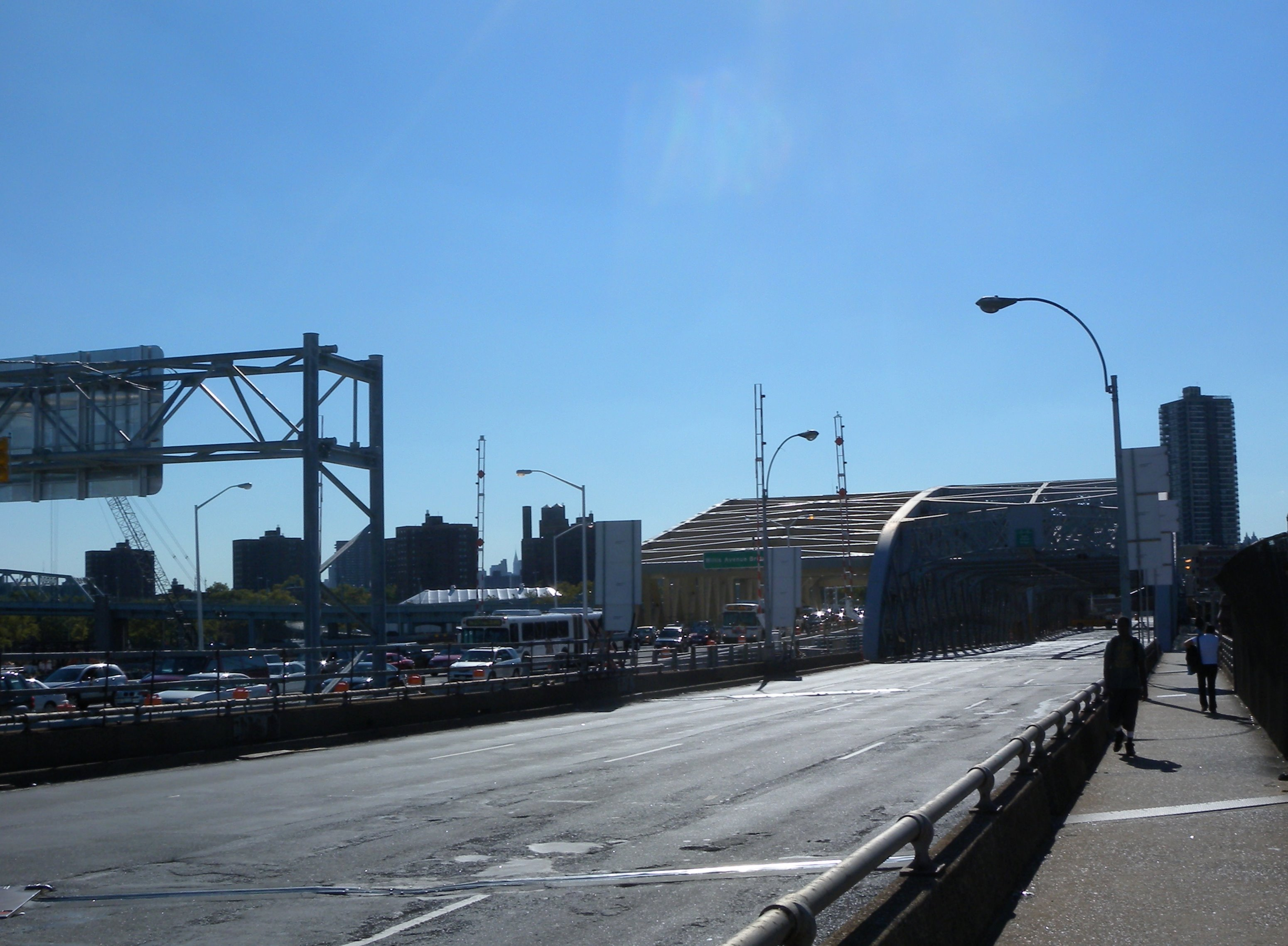 Looking south at empty old bridge, with new bridge on left full of traffic on its opening day.